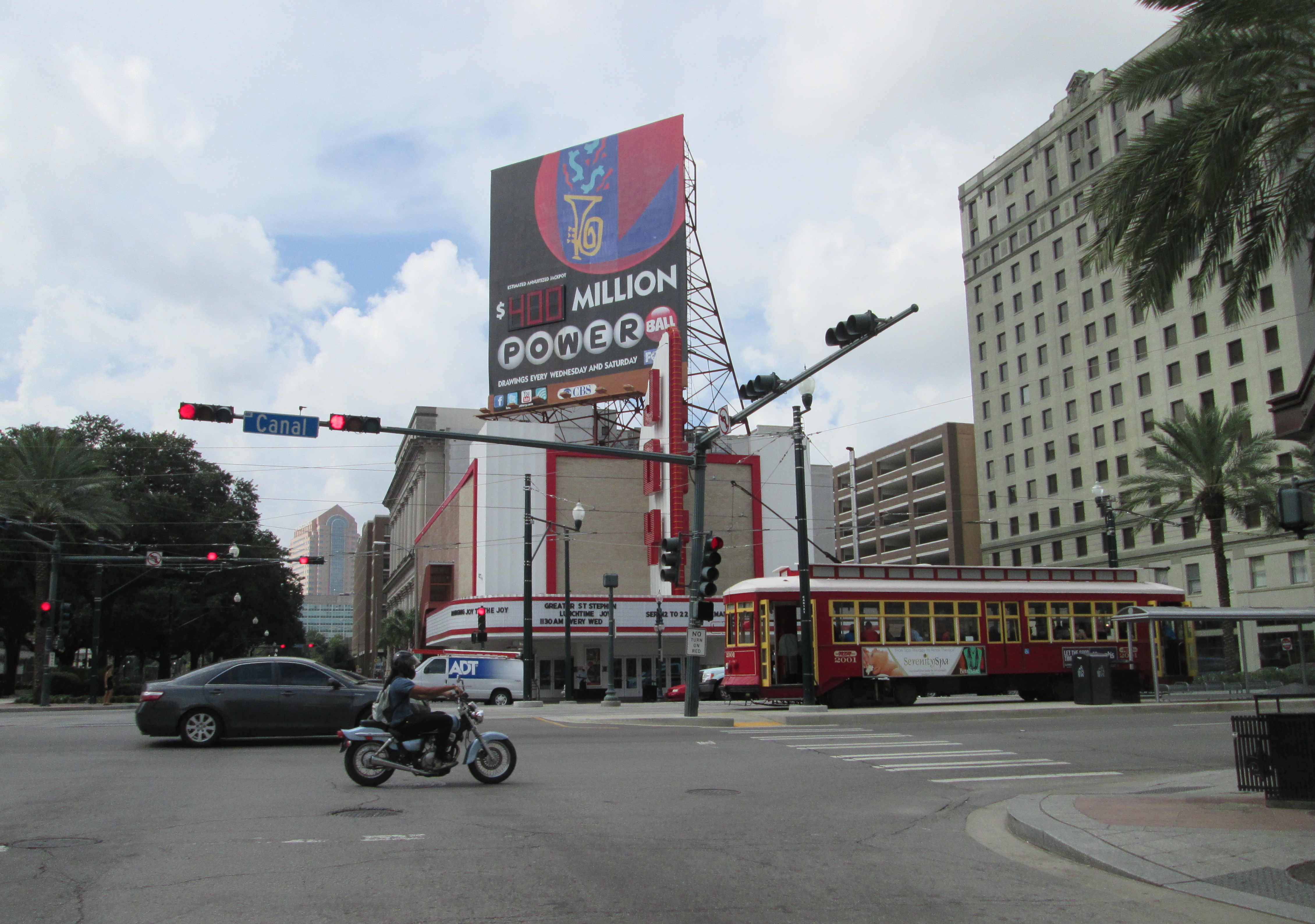 Basin Street at Canal, New Orleans. View towards recently renovated Joy Theater.